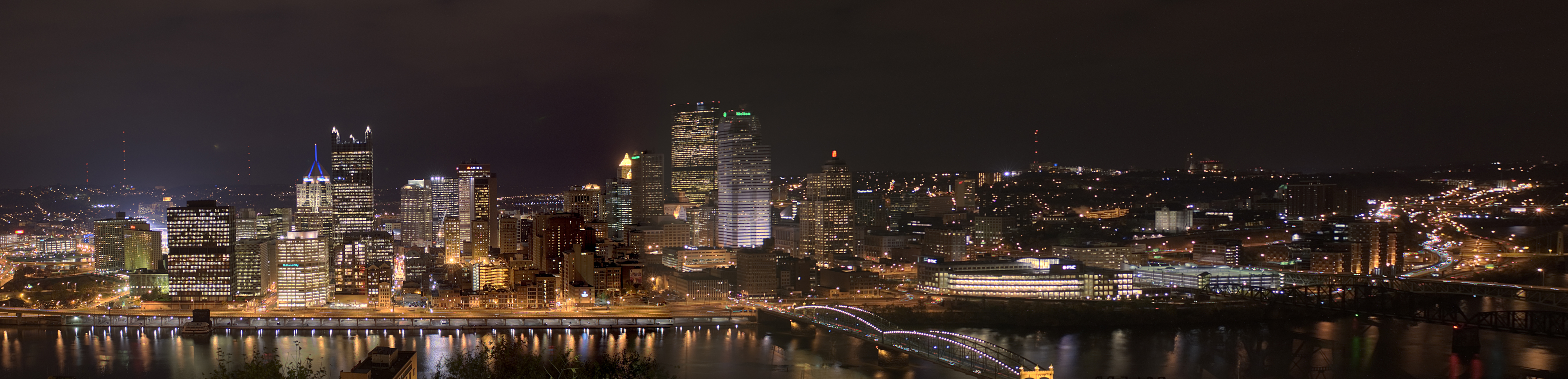 Pittsburgh skyline during the night, from Mt. Washington.